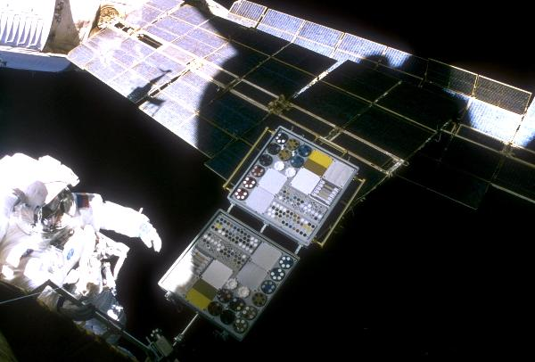 The Passive Optical Sample Assembly (POSA I) of the Mir Environmental Effects Payloads (MEEP) being installed on the docking module of Mir during STS-76.